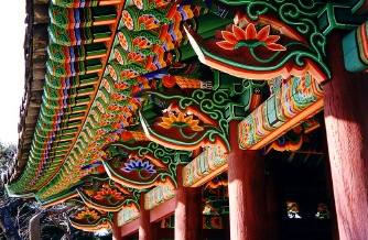 Gyeongpodae in Gangneung, South Korea